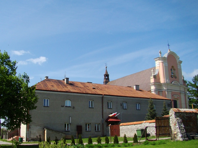 The bernardine monastery and church in Opatów.